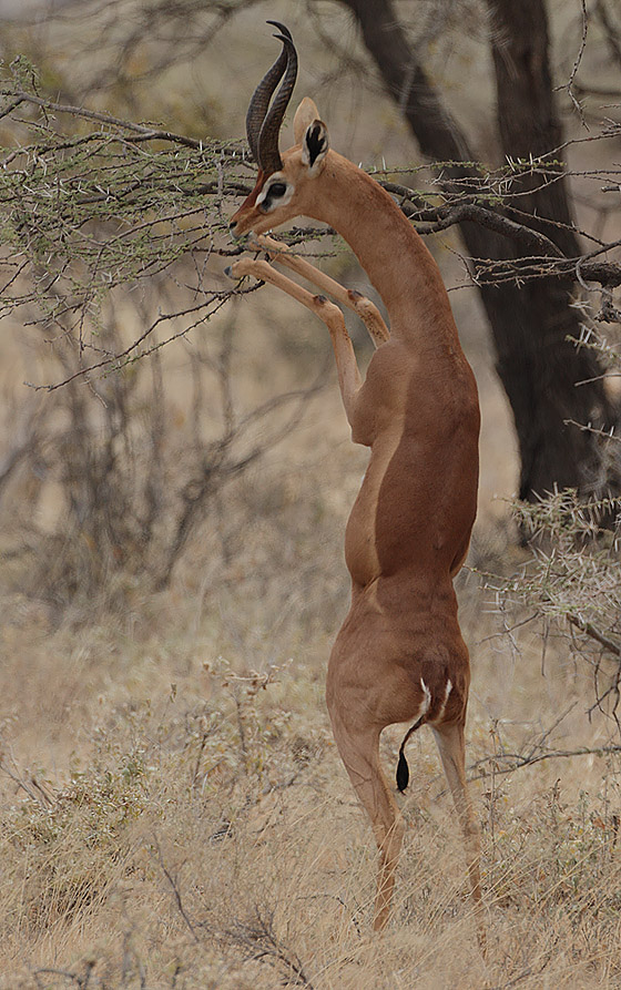 A male Gerenuk in classical feeding pose. These long-legged long-necked antelope can access browse that other species can't reach. Image taken in Buffalo Springs/Samburu N.P., Kenya